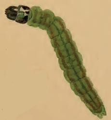 Stainton’s Natural History of the Tineina (1855–1873): Depressaria olerella